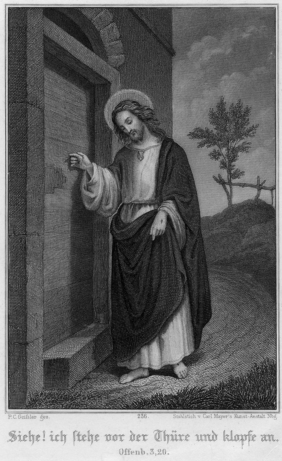 19th century steel engraving (de: stahlstich) showing Jesus Christ, knocking at the door. Book of Revelations 3:20. Here page or figure 236.